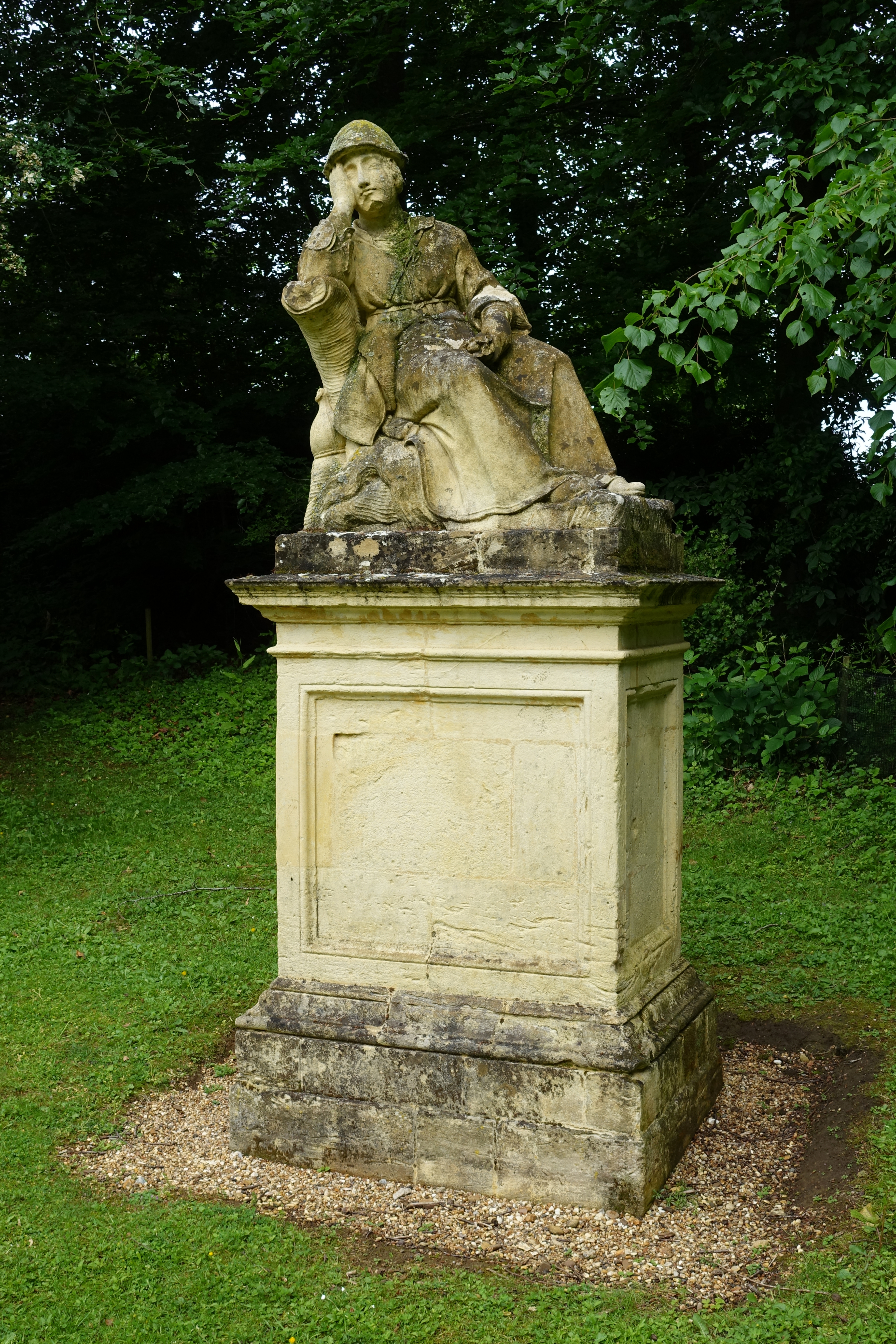 Stowe Gardens - Buckinghamshire, England.